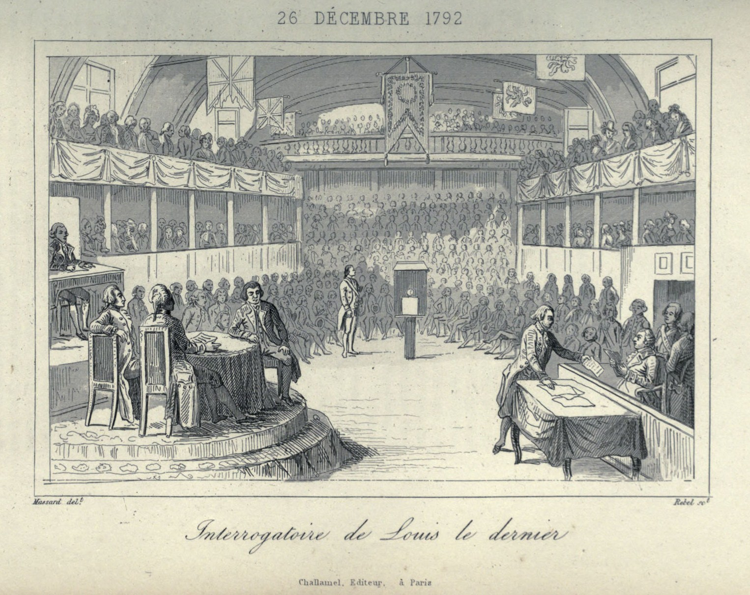 The Examination of “Louis the Last”.